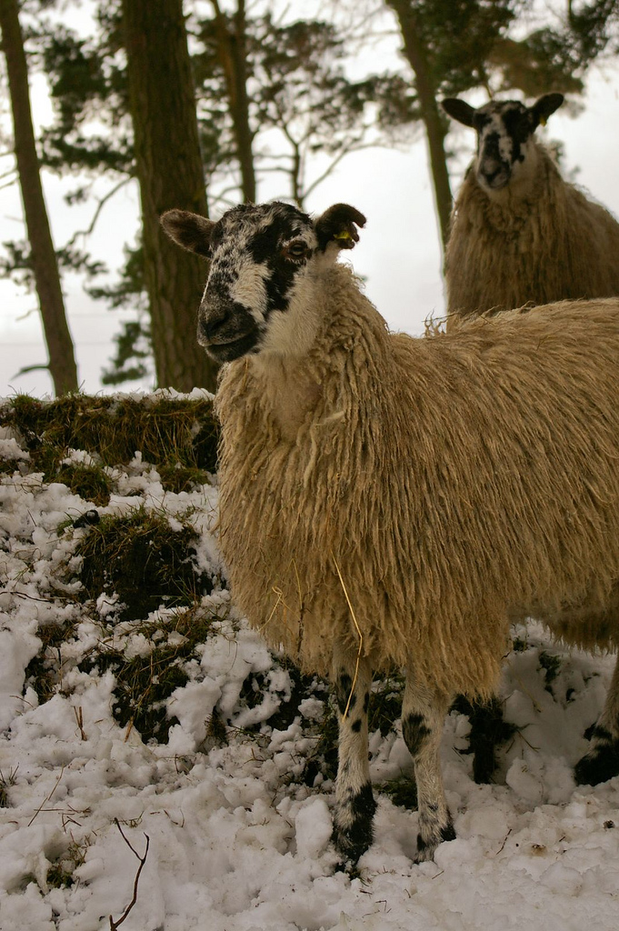 Sheep in the wintertime. North Yorkshire, U.K.